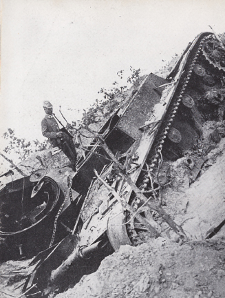 Battle of Lake Khasan-Destroyed Soviet tank